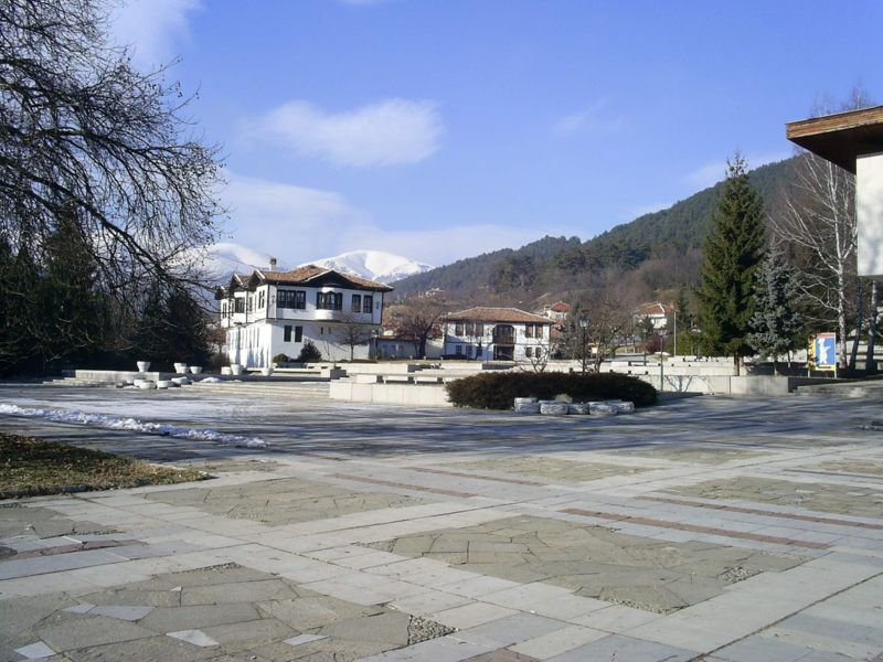 The central square of Kalfoer, Bulgaria